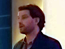 Scott McGillivray photographed in Dorval, Québec, Canada at the Sheraton.